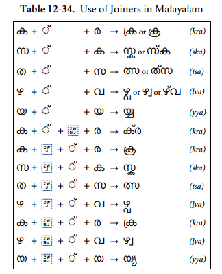 Usage of zwj and zwnj in Malayalam